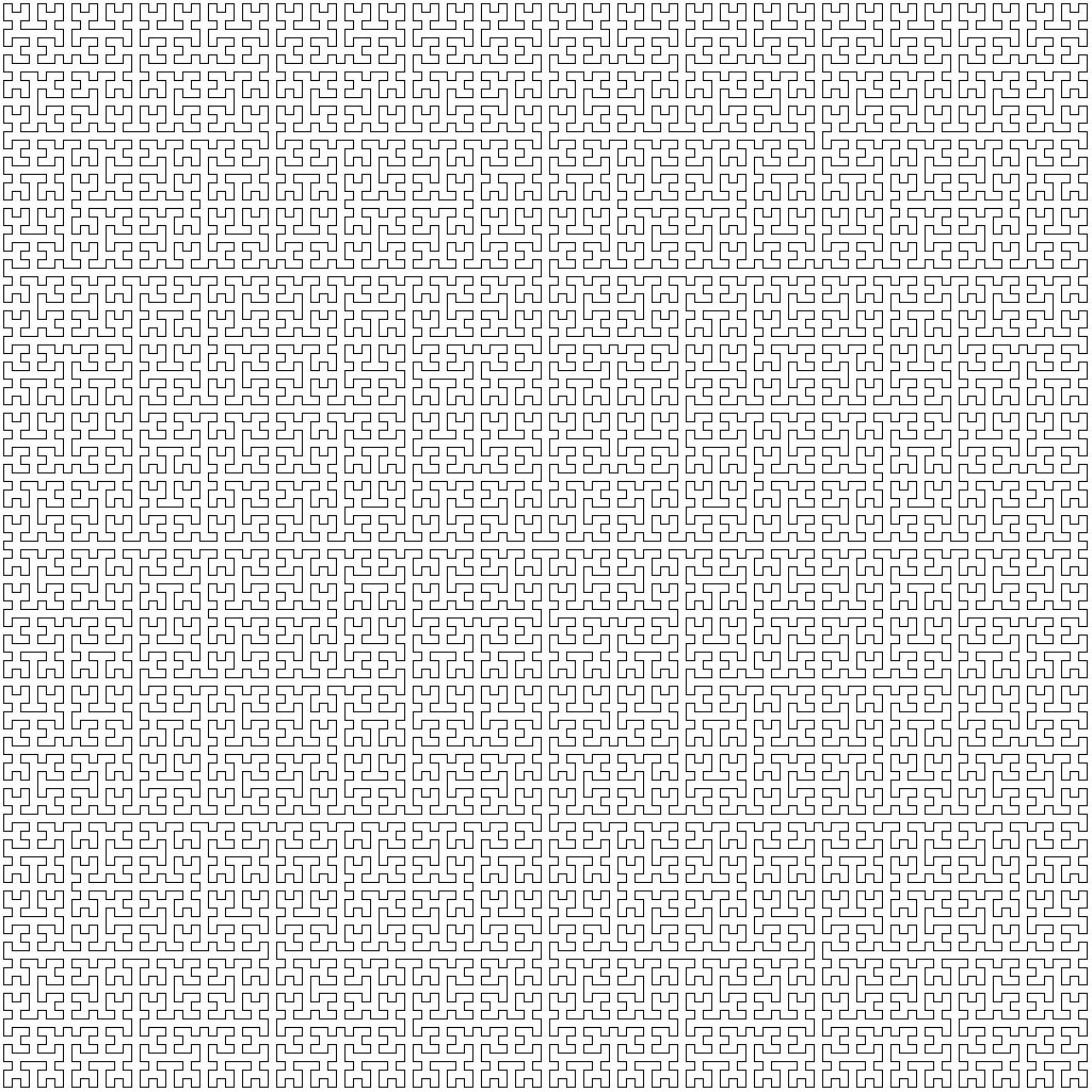 Hilbert Curve L6